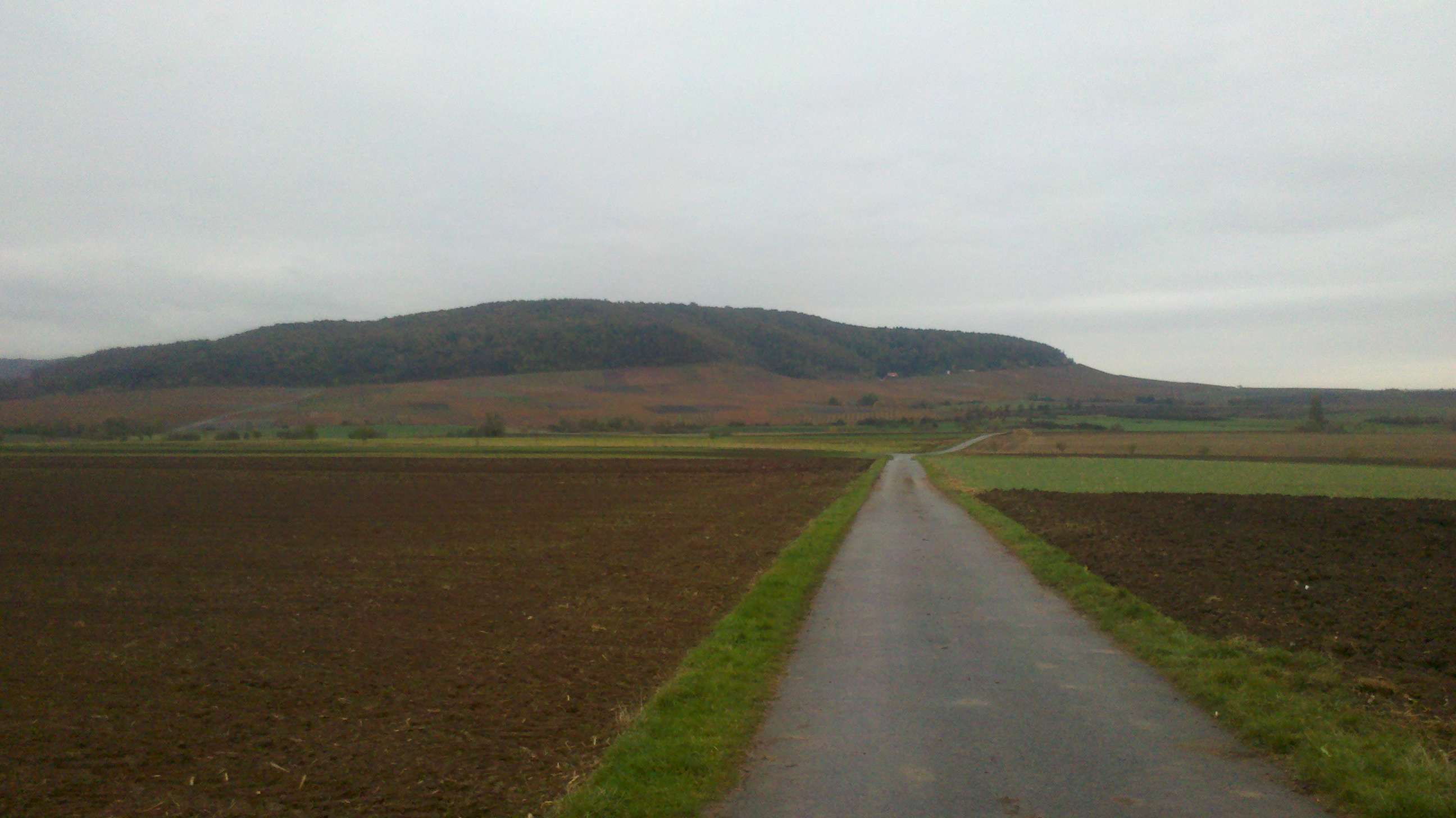 Bullenheimer Berg